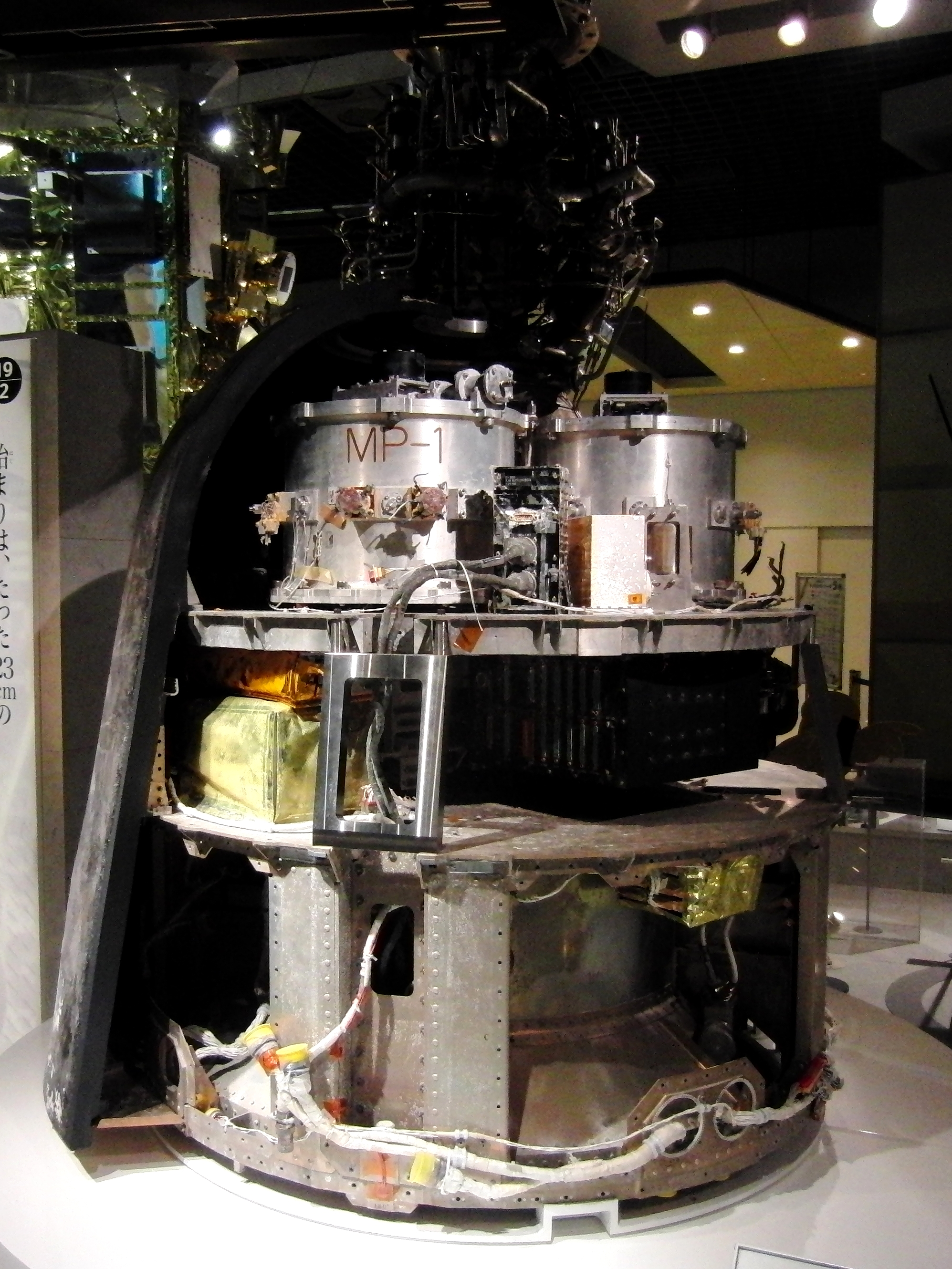 REV (REcovery Vehicle) of USERS (Unmanned Space Experiment Recovery System). Exhibit in the National Museum of Nature and Science, Tokyo, Japan.